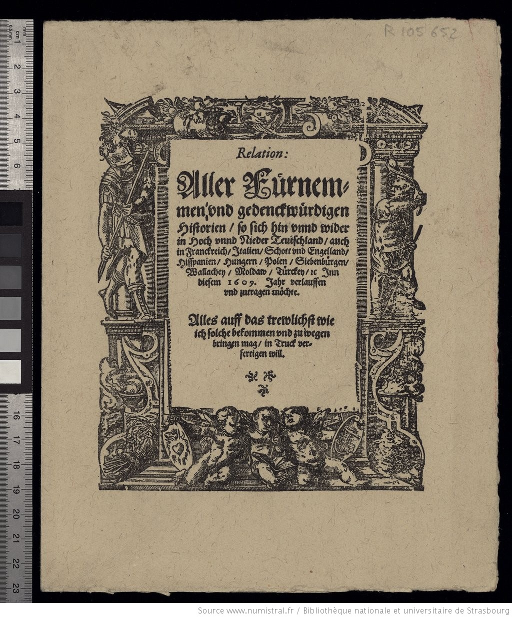 Title page of the Relation aller Fürnemmen und gedenckwürdigen Historien from 1609. The German-language 'Relation' had been published by Johann Carolus at the latest since 1605 in Strassburg, and is recognized by the World Association of Newspapers as the world's first newspaper.